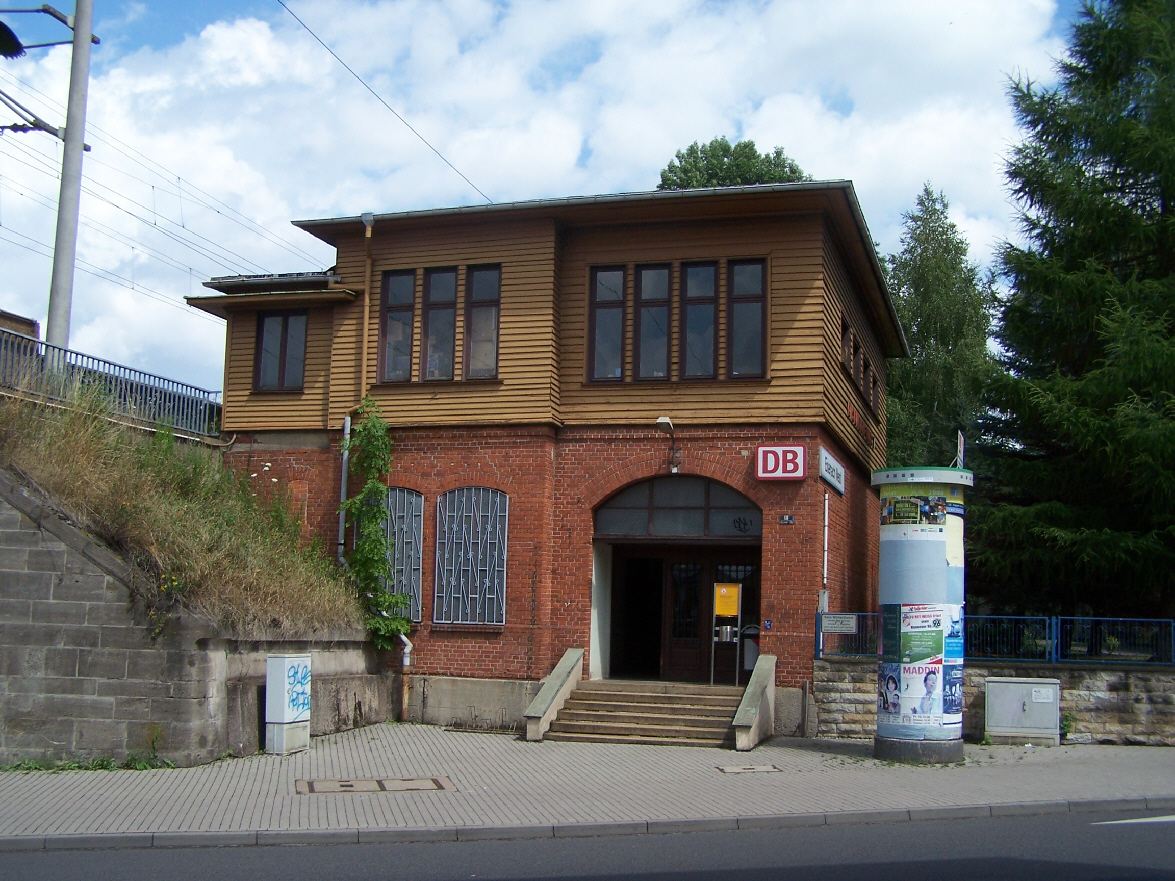 The station Westbahnhof in Eisenach.